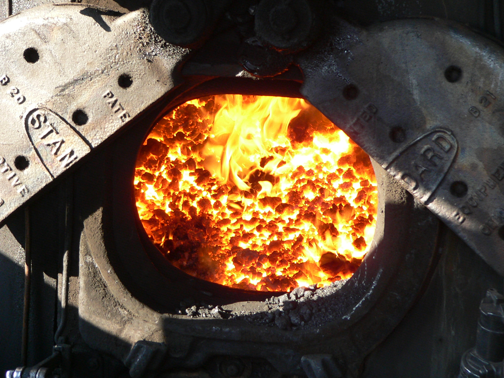 Taken in Dollywood. The firebox is approximately 3,500 degrees F (~1900 ℃).